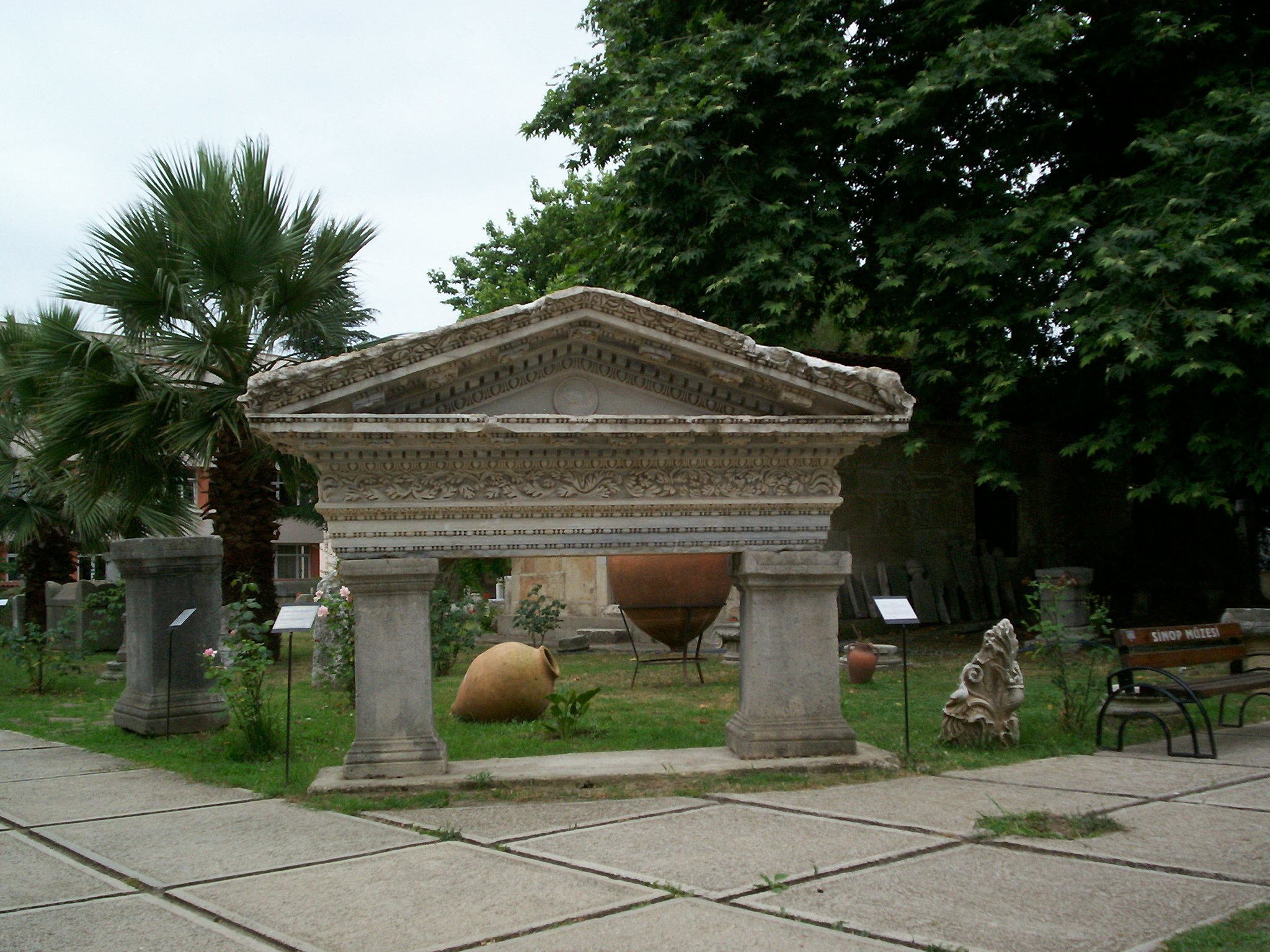 Roman exhibits in the yard of Sinop museum, Turkey